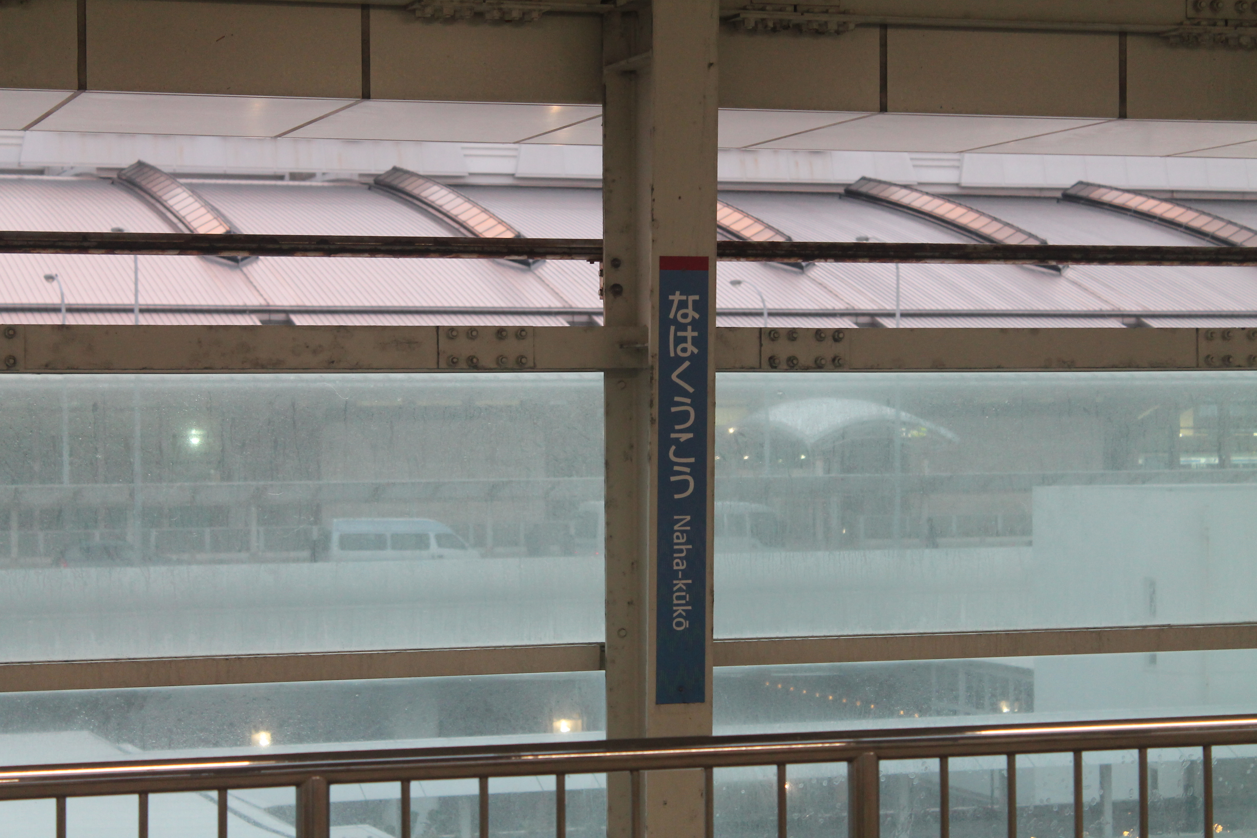 Station name